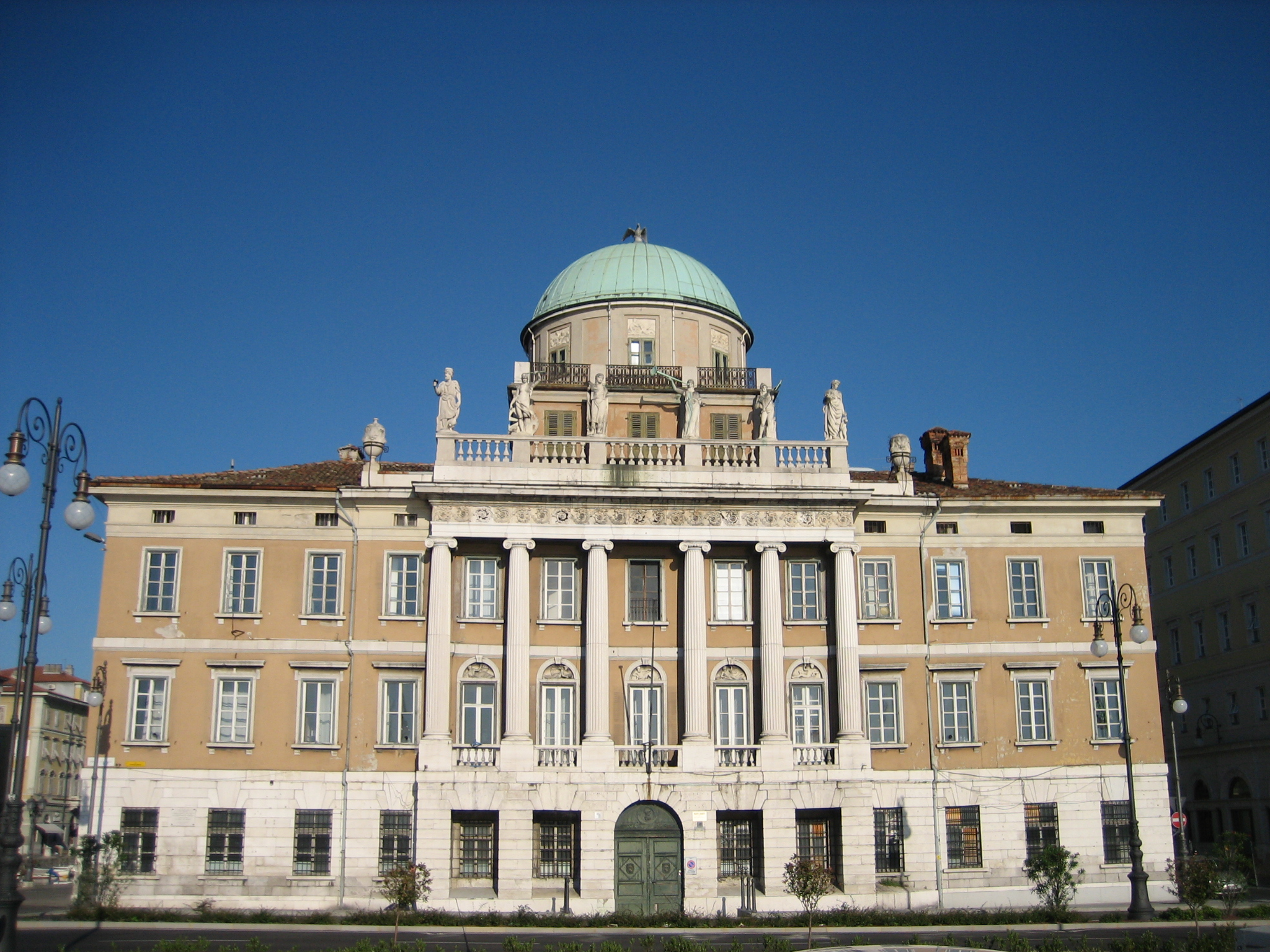 Palazzo Carciotti in Trieste, Italy